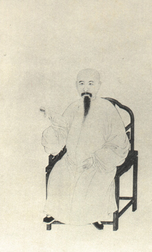 LING Tingkan, politician and scholar of the Qing Dynasty.